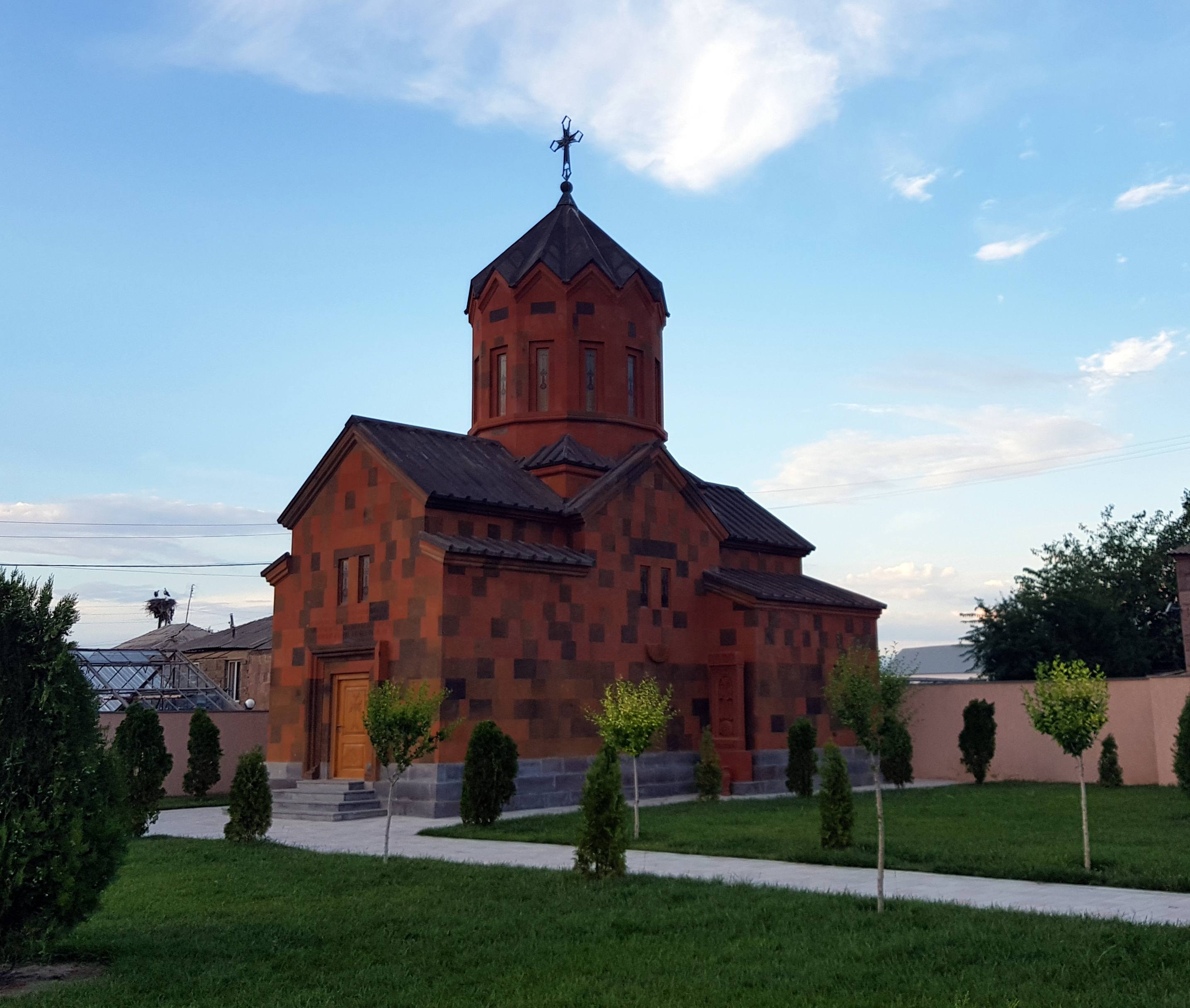 Holy Mother of God Church (Dashtavan)